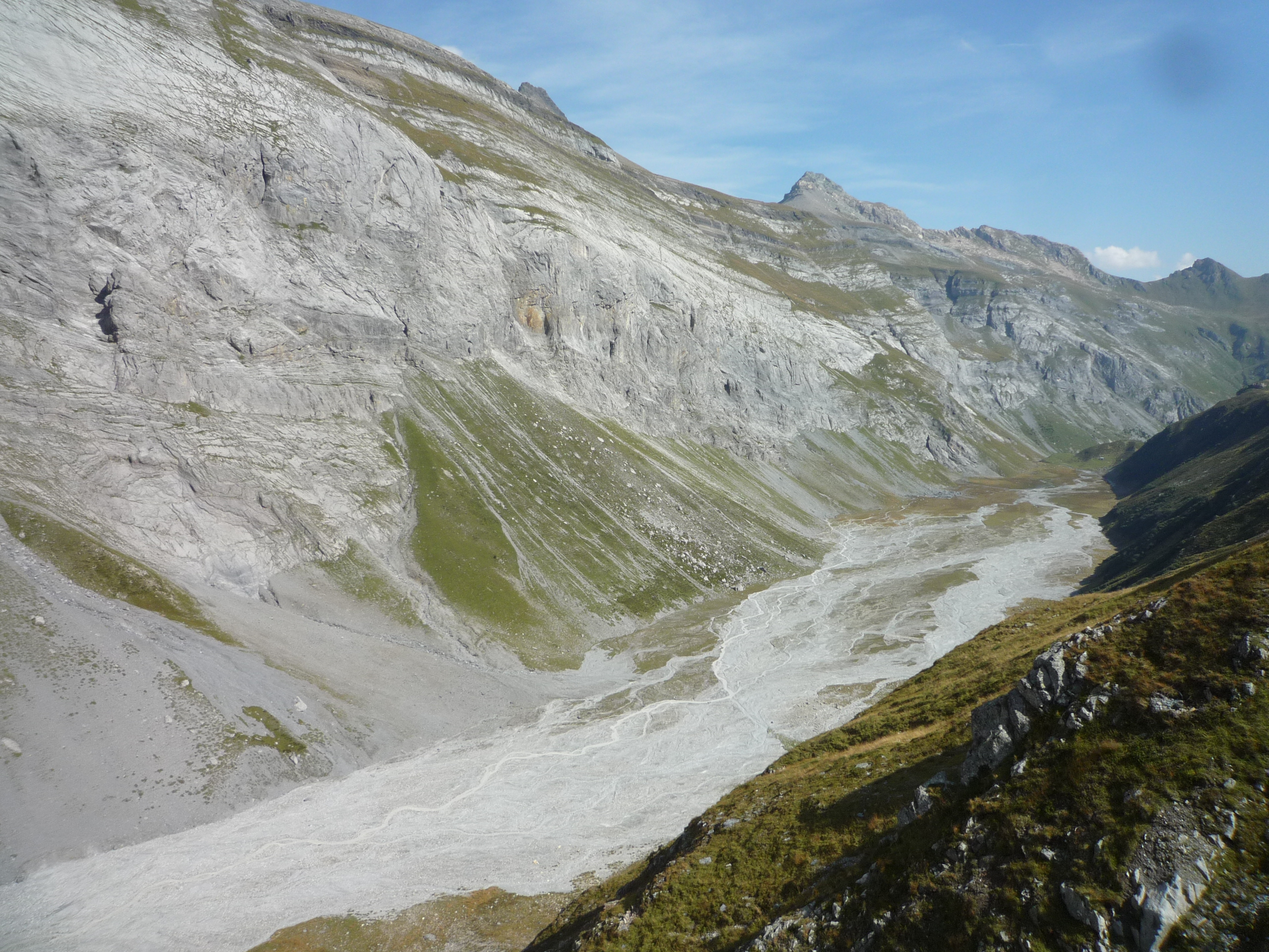 The plain at Val Frisal,1900 meters above sea level seen from West to East towards Piz d'Artgas